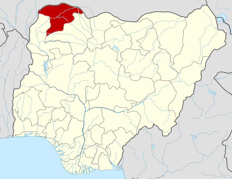 Map locator of Nigeria.